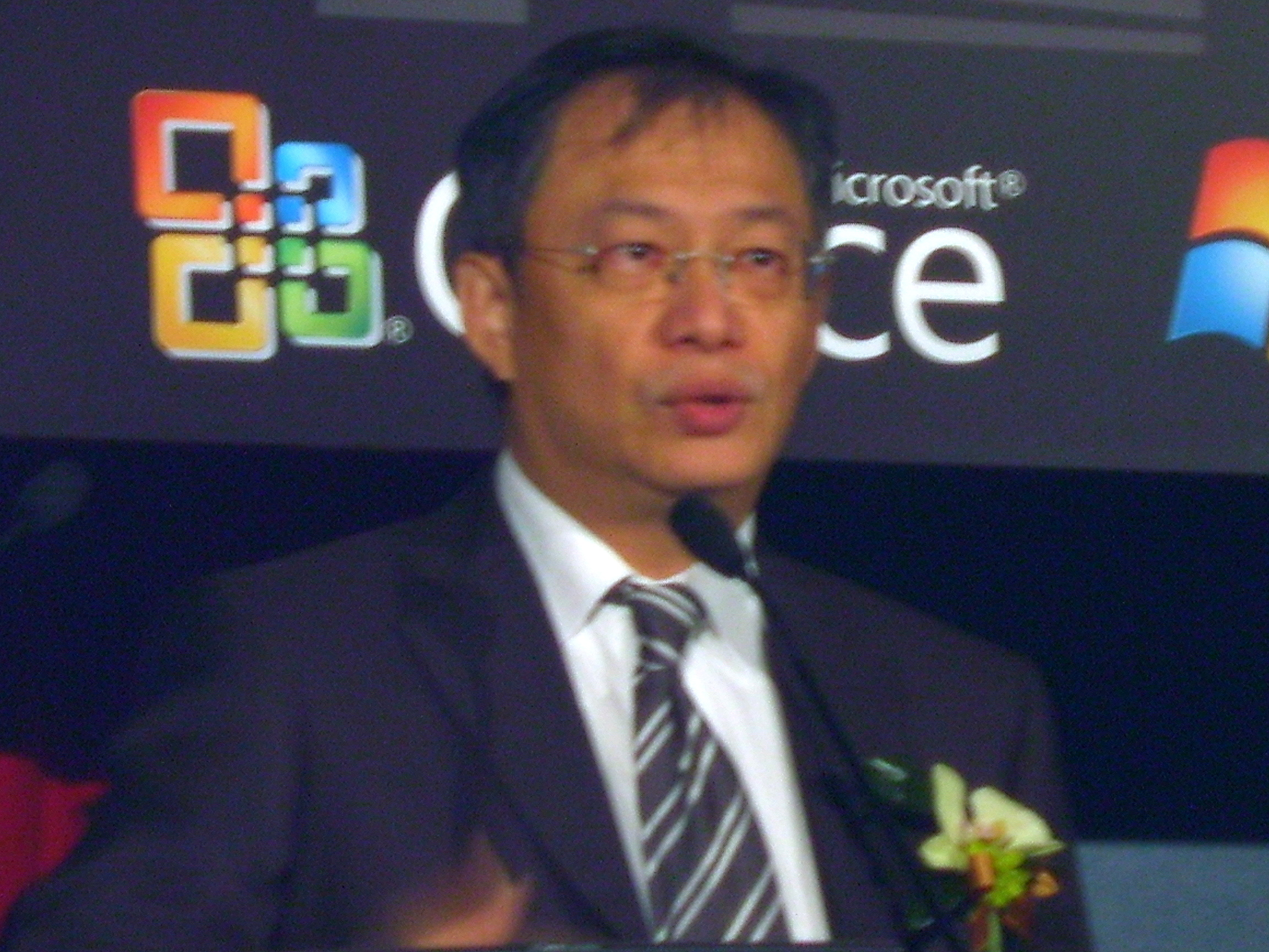 Alexander Tsun-Yie Huang, Regional Director, Greater China of Microsoft Corp., is one of VIPs in Microsoft Office 2007 Launch in Taipei International Convention Center, Taiwan.